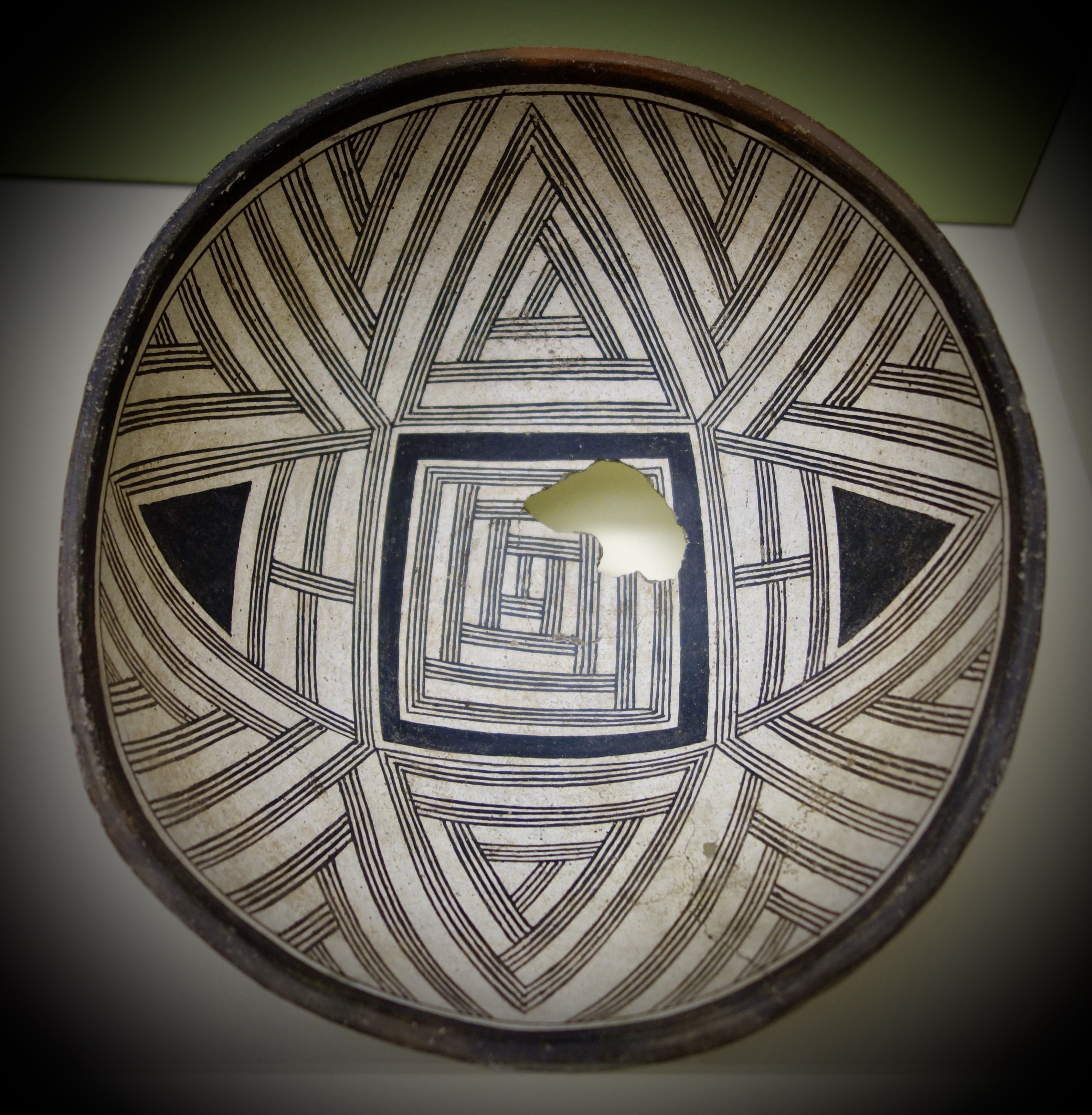 Exhibit in the Fitchburg Art Museum, Fitchburg, Massachusetts, USA. This artwork is old enough so that it is in the public domain.